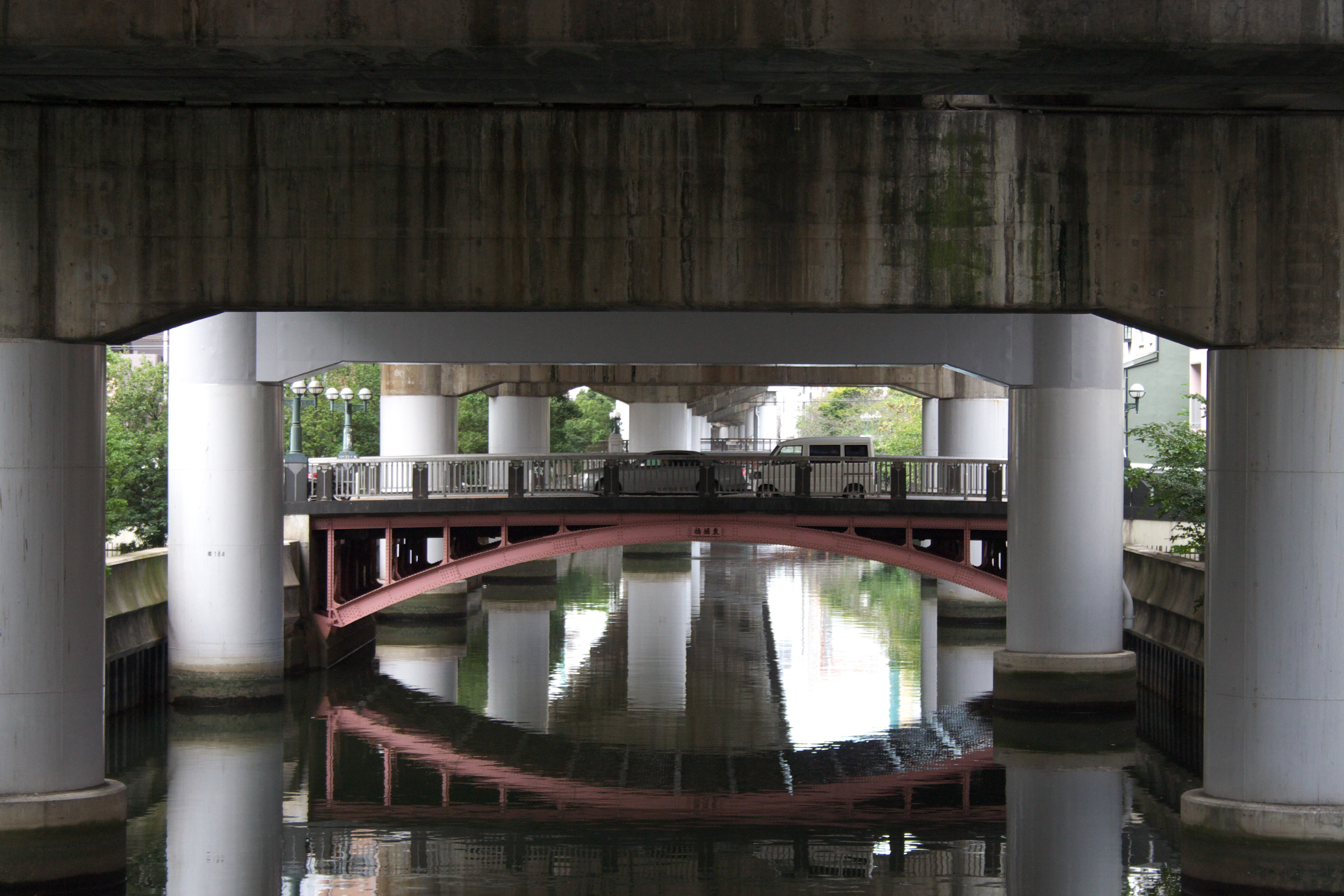 Higashihoribashi Bridge (Osaka City, JAPAN)